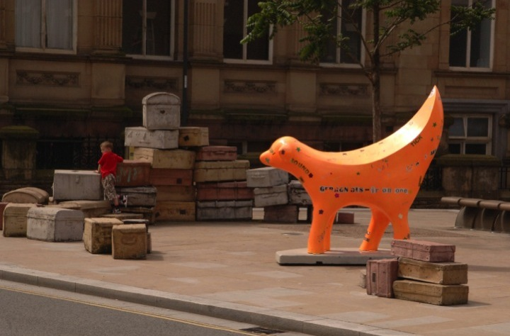 JOHN LENNON ATTENDED AND MET PAUL MCCARTNEY HERE. THEY FORMED THE FIRST BEATLE BAND KNOWN AS THE QUARRYMEN WHILE ATTENDING HERE. BOTH WERE STUDYING TO BE ARTISTS